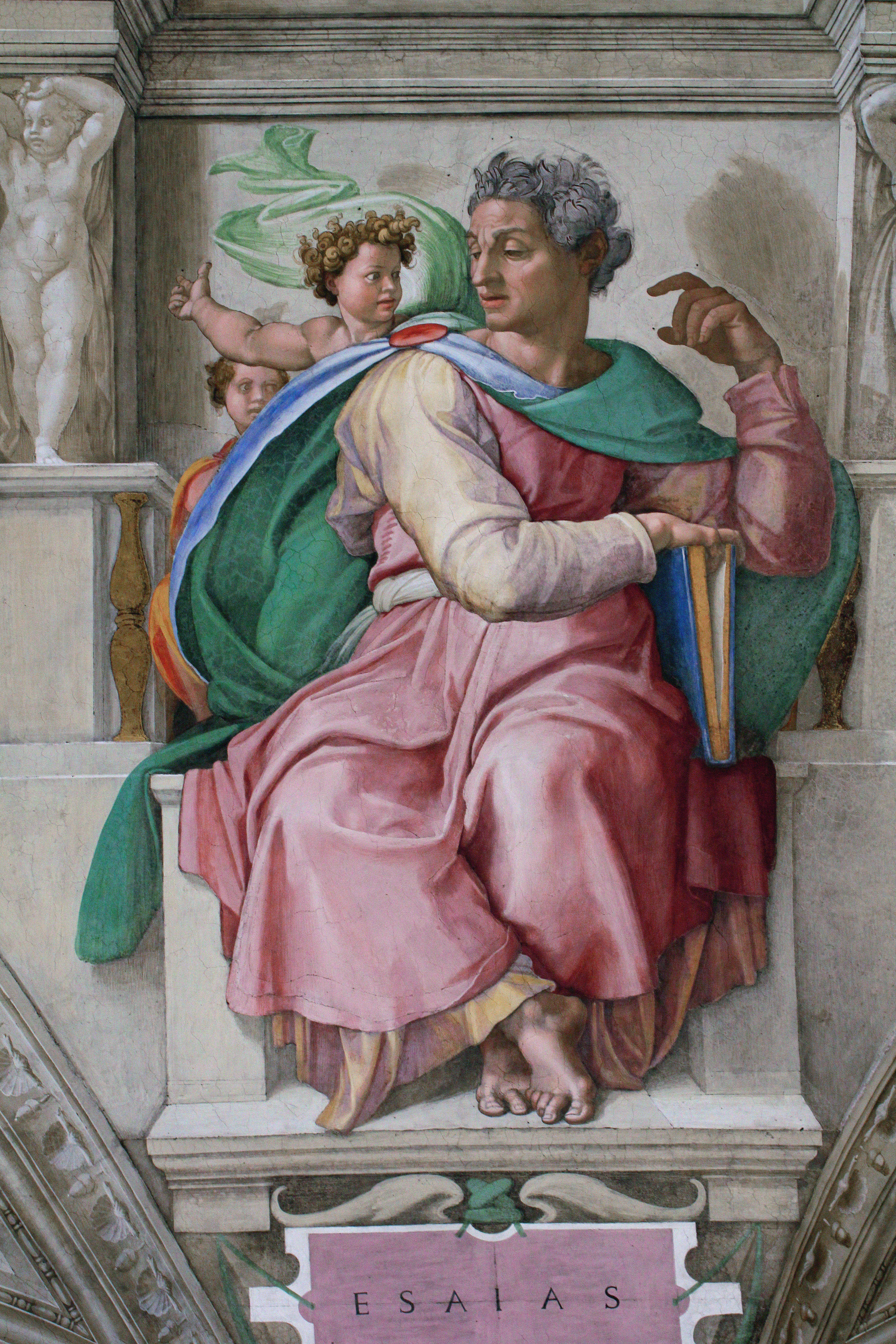 The prophet Isaiah, fresco painted by Michelangelo (1475-1564), Sistine Chapel Ceiling (1508-1512) Rome, Vatican